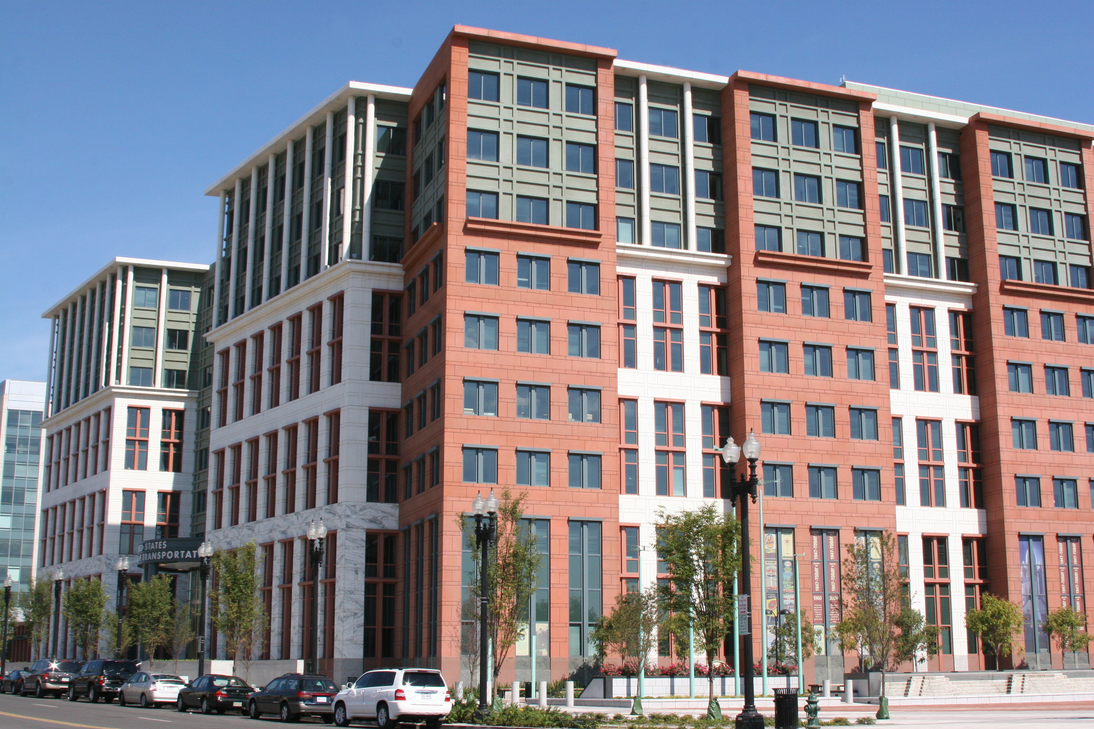 U.S. Department of Transportation headquarters - new building opened in Spring 2007 in Southeast Washington, near the Navy Yard and the new Nationals Ballpark.